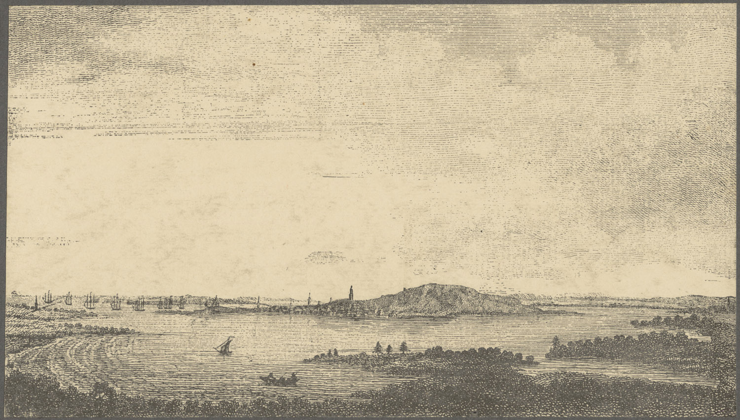 Accession No.: 07_10_000094 Cab. No.: Cab 23.58.1 Title: View of Boston Harbor from Willis' Creek Date: ca.1777 Genre: Photographs; Engravings Description: Copy photograph of engraving from the marine atlas The Atlantic Neptune, compiled and published by Joseph F.W. Des Barres of the Royal Navy. BPL Department: Print Department |Source= View of Boston Harbor from Willis' Creek |Date=2008-05-21 11:14 |Author=BPL